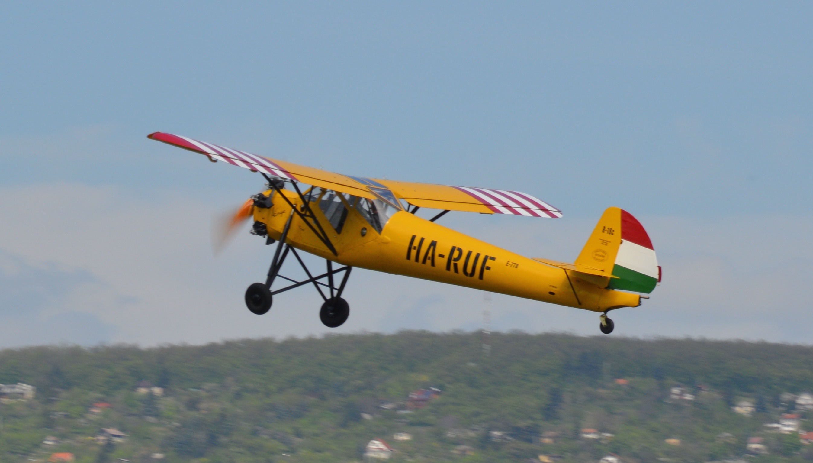 Rubik R-18c Kánya liaison aircraft and glider tug (reg. HA-RUF) in Budaörs airfield, Hungary